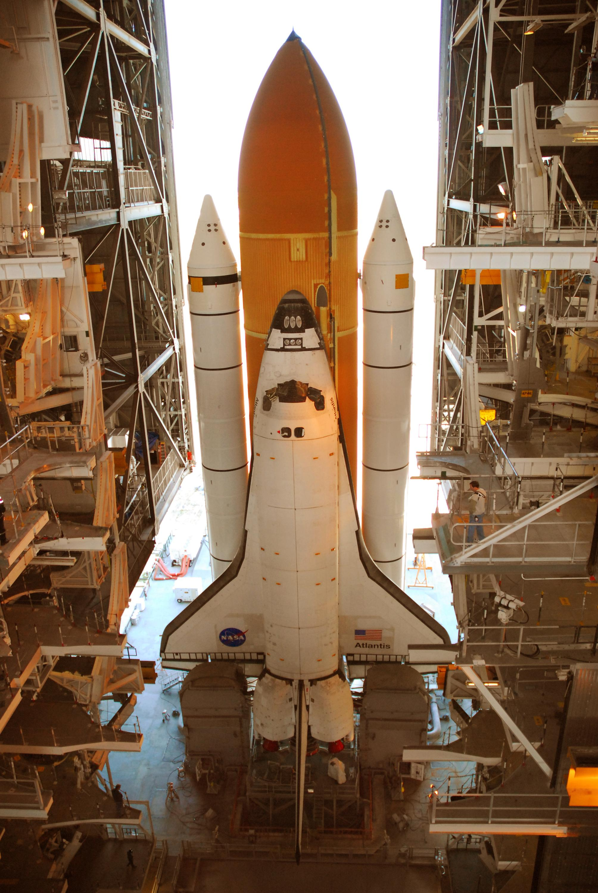 After leaving Launch Pad 39A, Space Shuttle Atlantis, atop the mobile launcher platform, comes to rest in the Vehicle Assembly Building. A severe thunderstorm with golf ball-sized hail caused divots in the giant tank's foam insulation and minor surface damage to the shuttle's left wing.